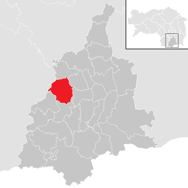 District Leibnitz